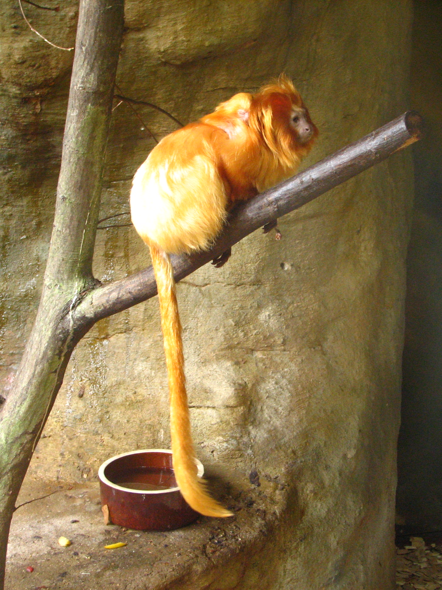 Golden Lion Tamarin ZOO Dvůr Králové, Czech Republic